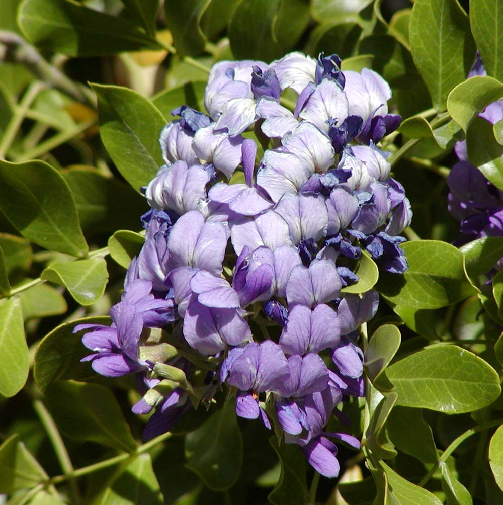 Photo of Calia secundiflora (syn. Sophora secundiflora) flowers at the Desert Demonstration Garden in Las Vegas